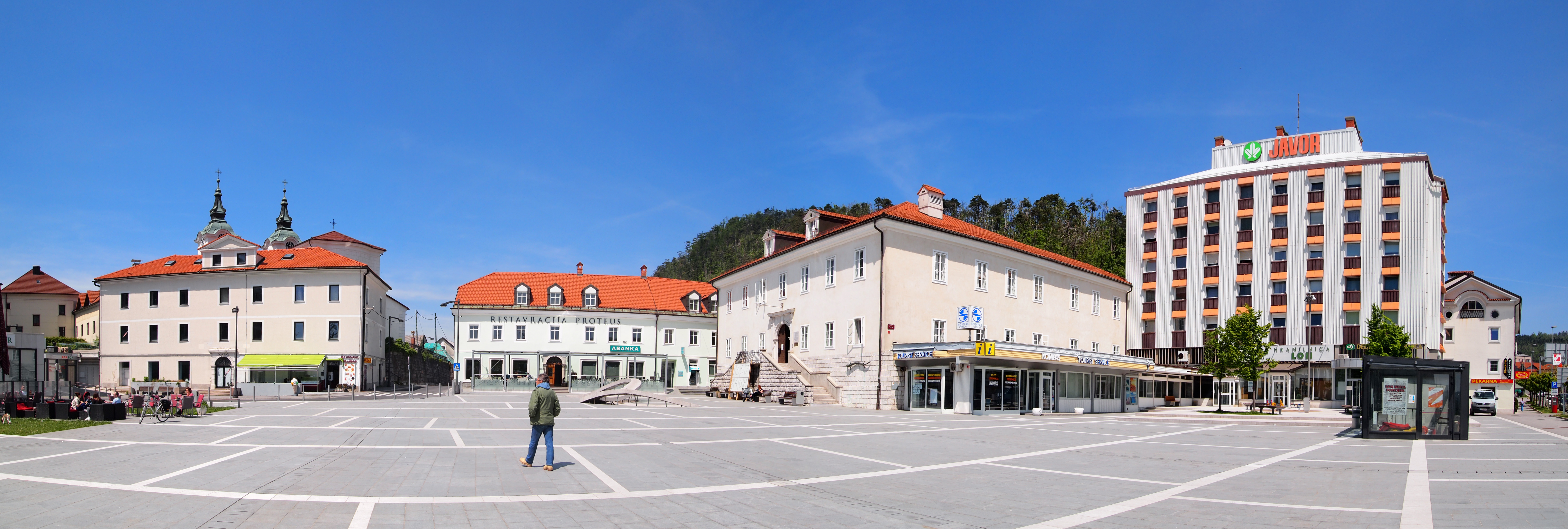 The main square Titov trg in Postojna. This photograph was taken with an Olympus E-PL1